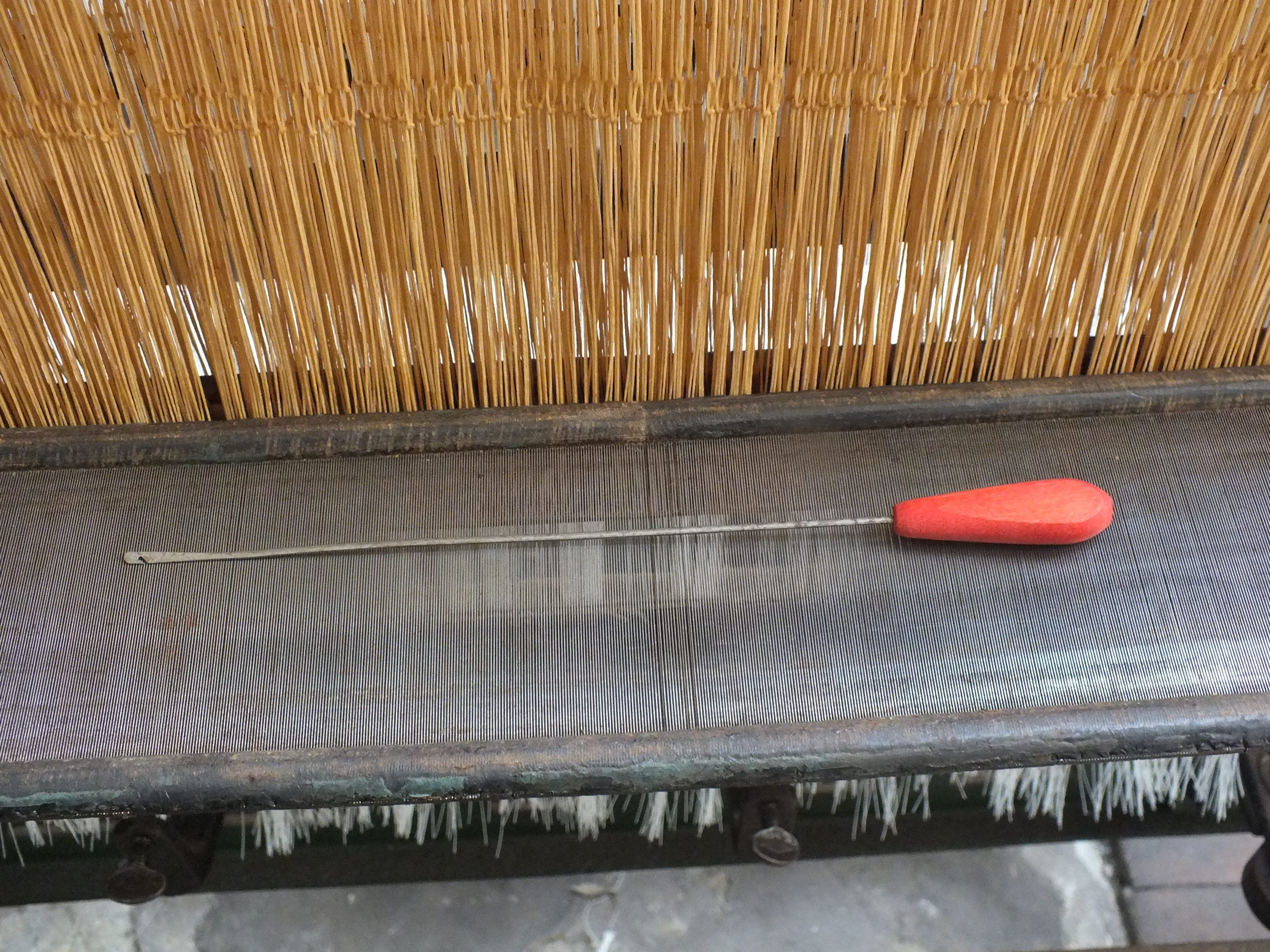 This item is in the collectionQueen Street Mill in Harle Syke, a suburb to the north-east of Burnley, Lancashire. The mill was built in 1894 for the Queen Street Manufacturing Company. It closed on 12 March 1982 and was mothballed, but was subsequently taken over by Burnley Borough Council and used as a museum. In the 1990s ownership passed to Lancashire Museums. Unique in being the world's only surviving steam-driven weaving shed. The Looming frame, aka Drawing-in frame, the ends are drawn though the eyes of the heald, andthen passed down through the reed.